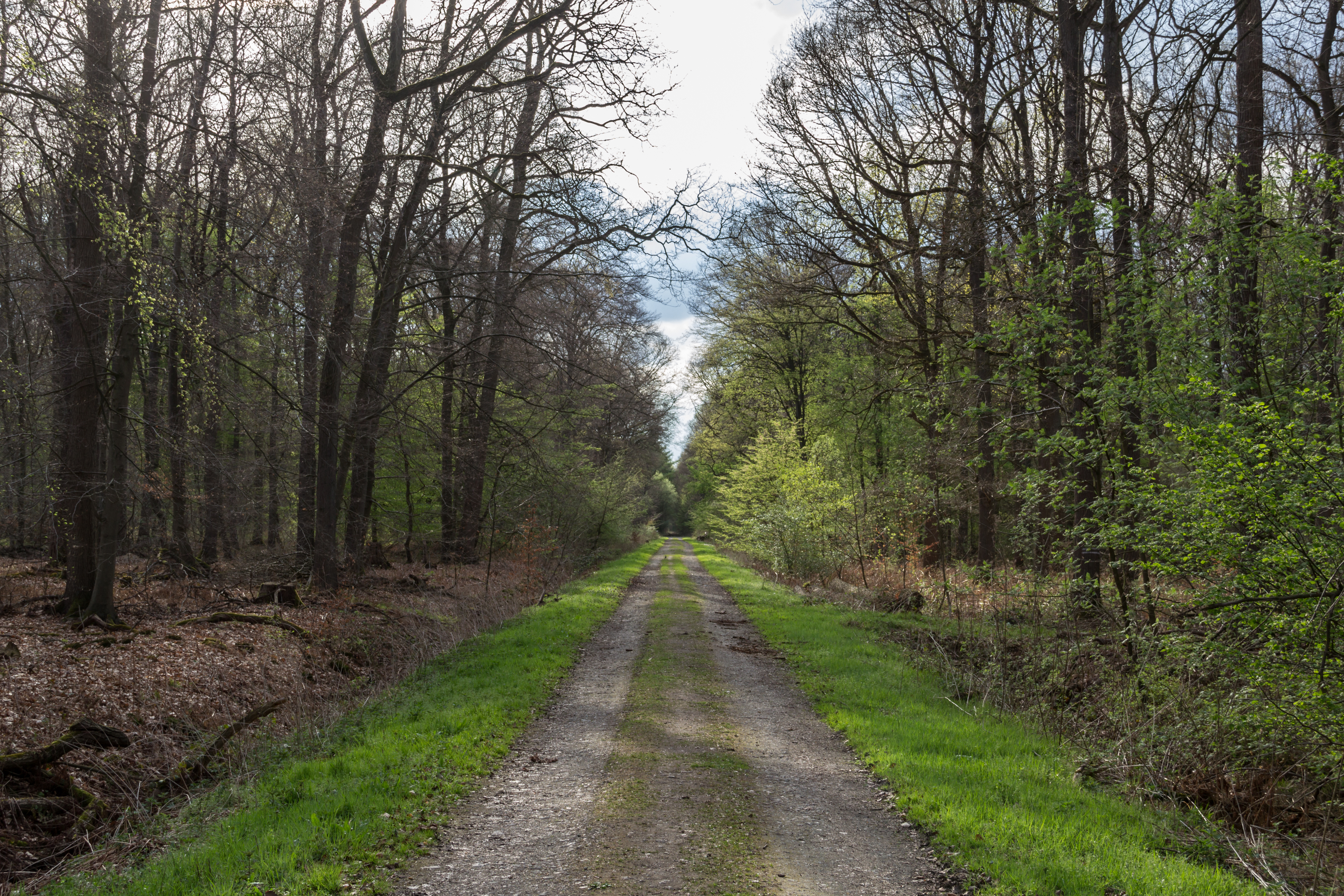 Wolbecker Tiergarten in Wolbeck, Münster, North Rhine-Westphalia, Germany